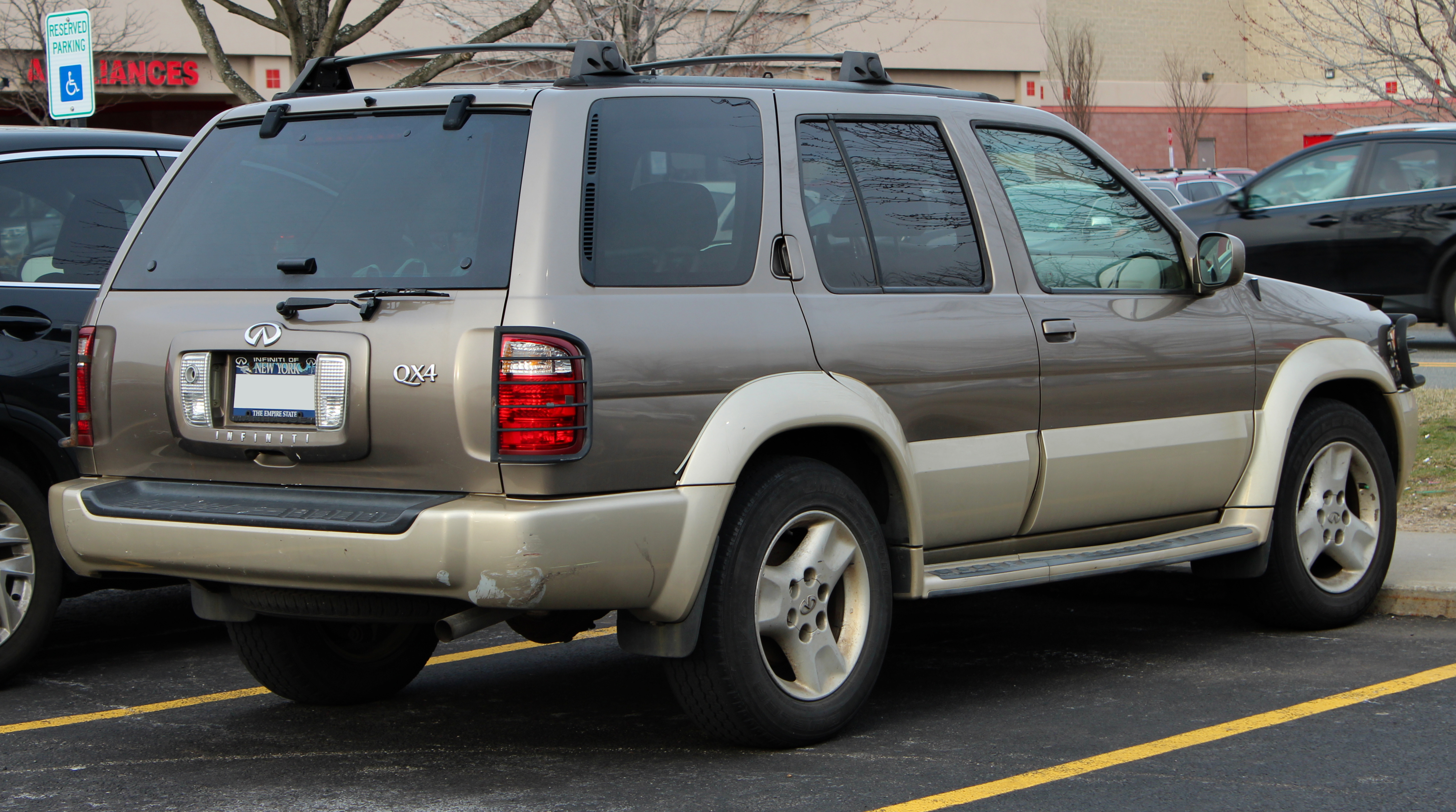 A 2001 Infiniti QX4 Luxury photographed in College Point, Queens, New York, USA